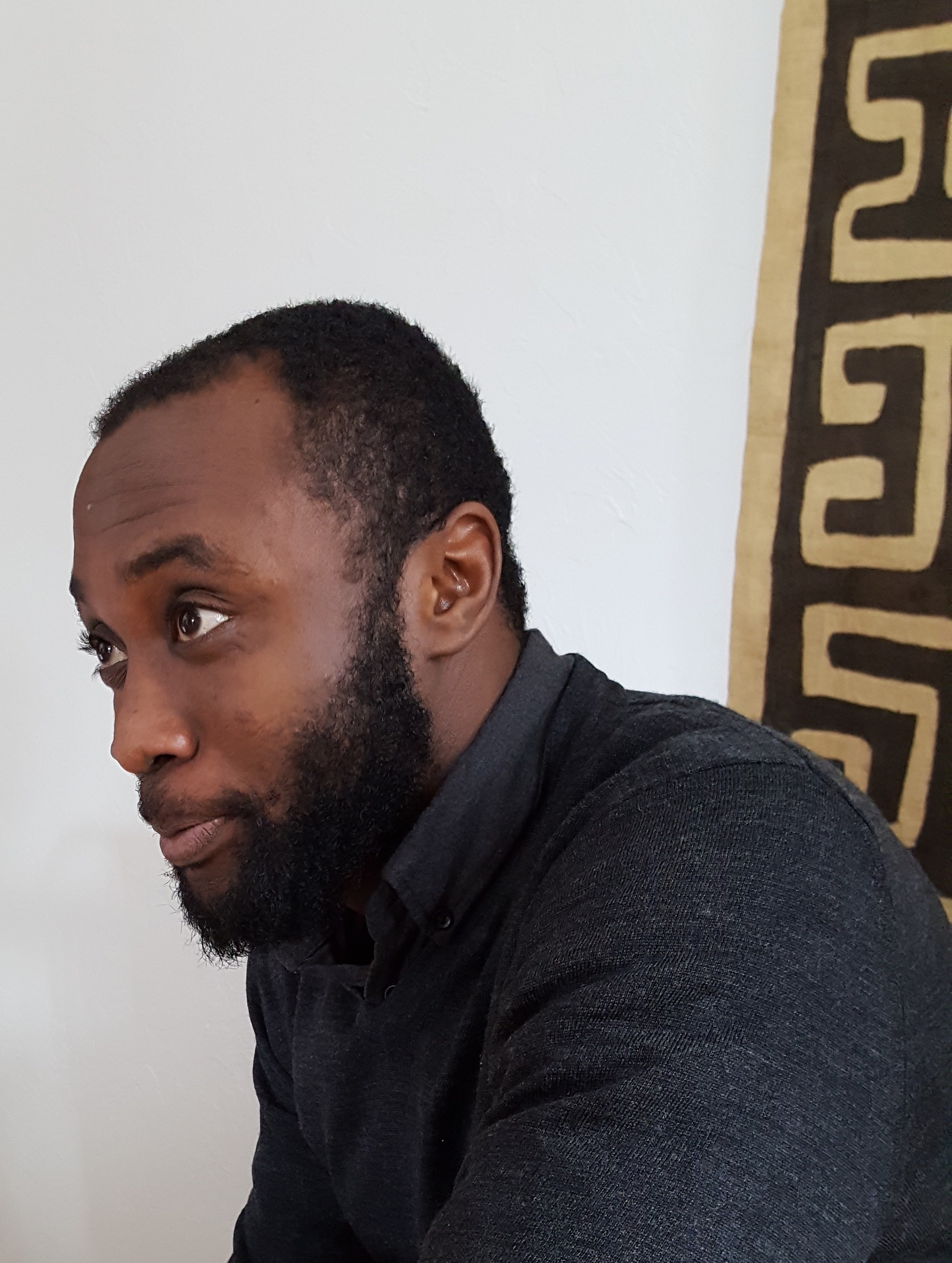 Emmanuel Iduma by Cindy Steiler